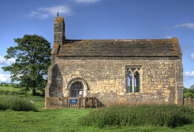 St Marys Church. Lead, near to Saxton, North Yorkshire, Great Britain.